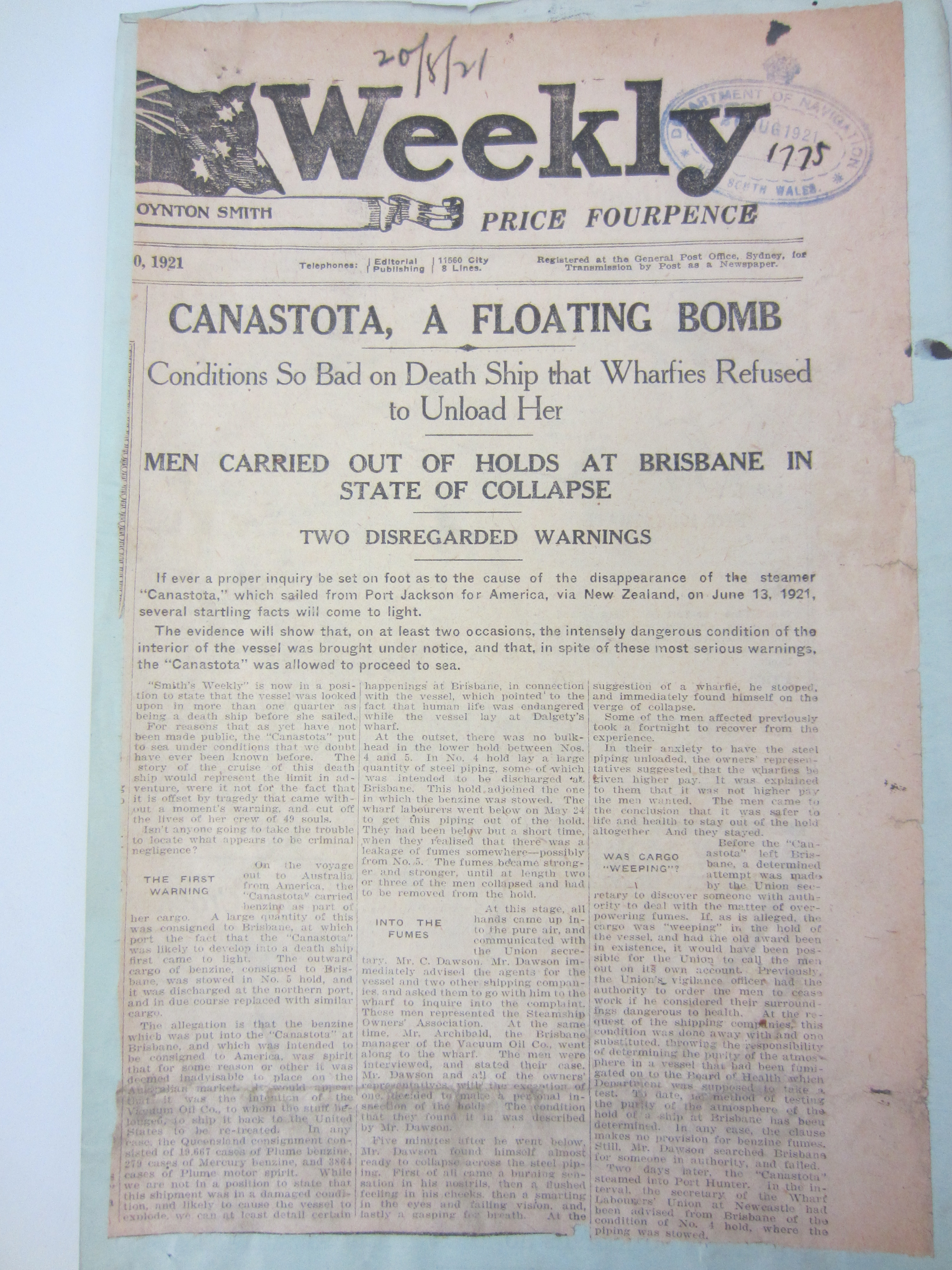 Original copy of the Floating Bomb article from Smith's Weekly (20 August 1921). This one is from the Papers of the Preliminary Inquiry held in the NSW State Archives.